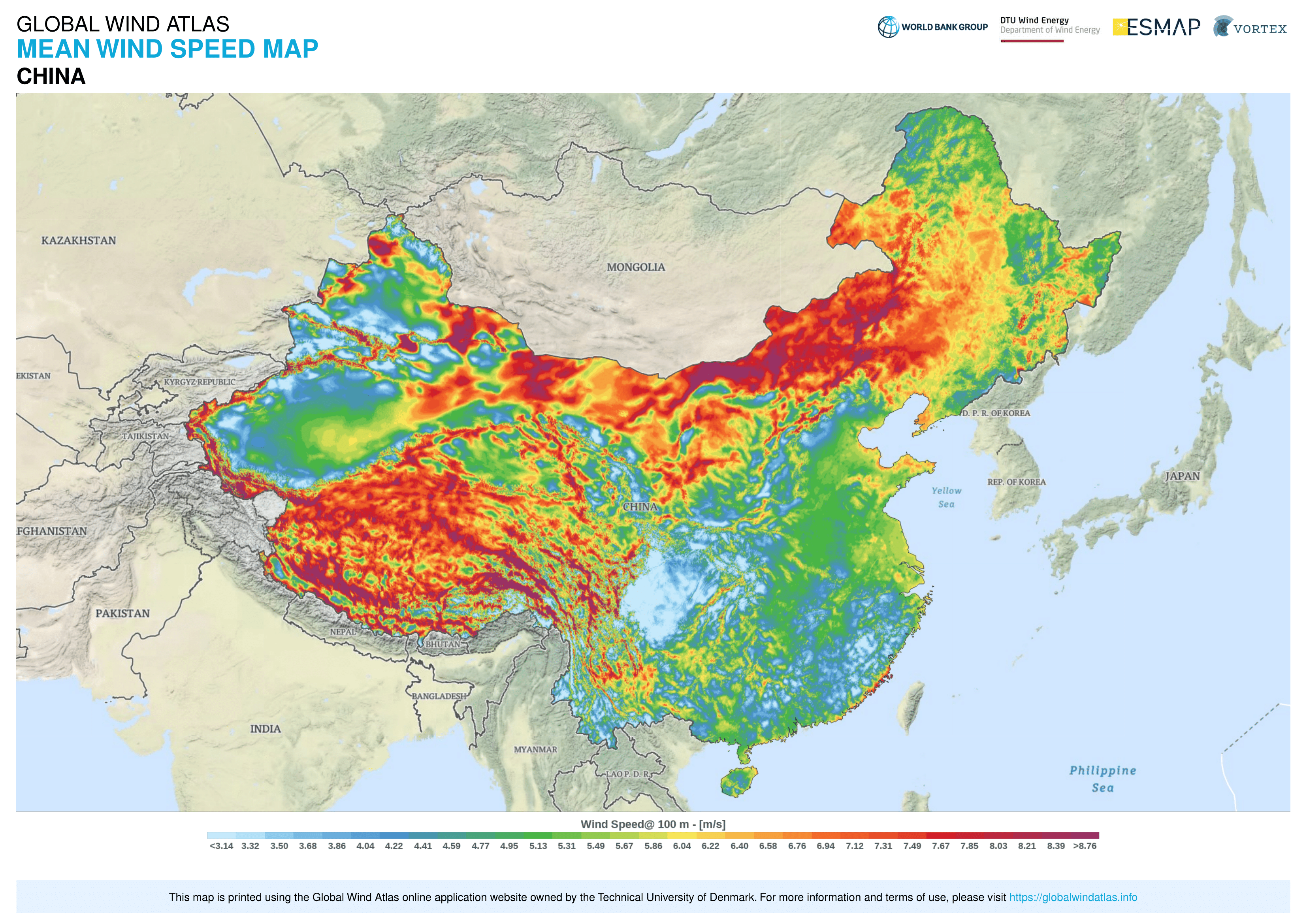 Mean Wind Speed in China from Global Wind Atlas